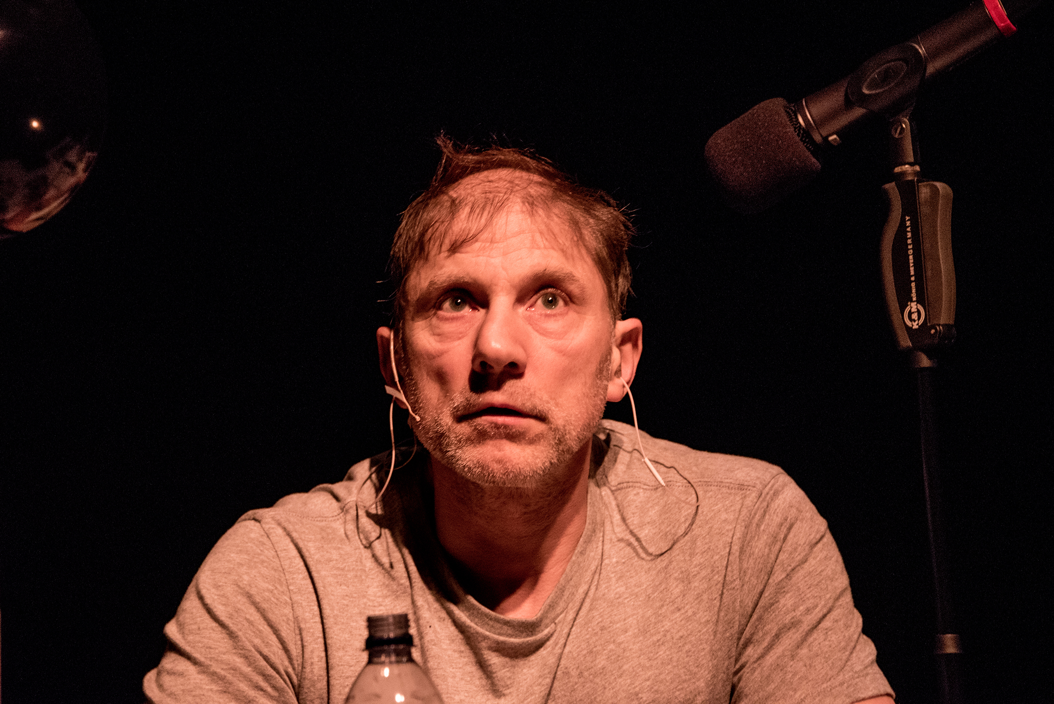 Simon McBurney in "The Encounter" (Théâtre de Complicité), World Premiere at the Edinburgh International Festival, August 2015 in "The Encounter" (Théâtre de Complicité), World Premiere at the Edinburgh International Festival, August 2015